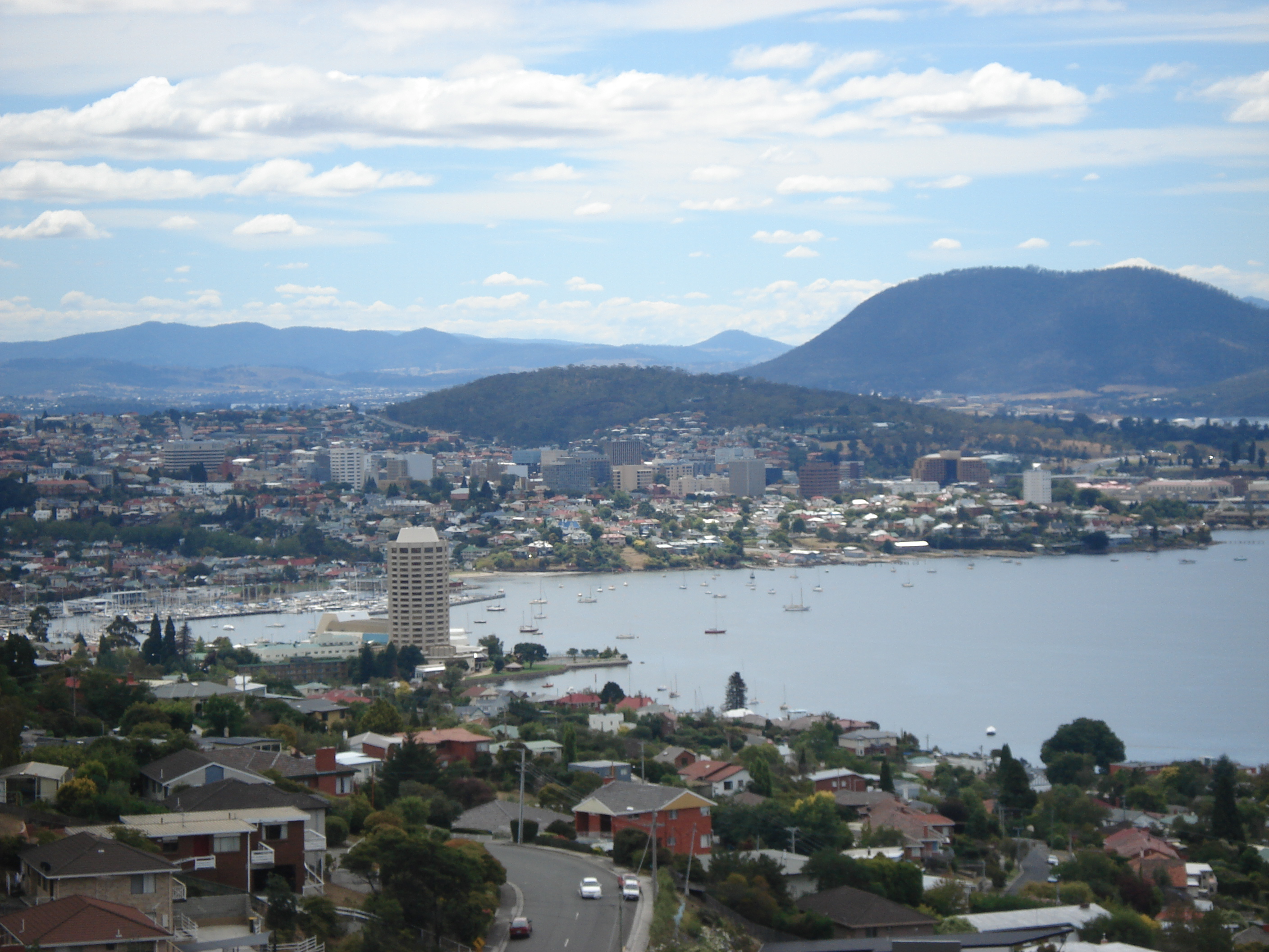 View of Hobart CBD